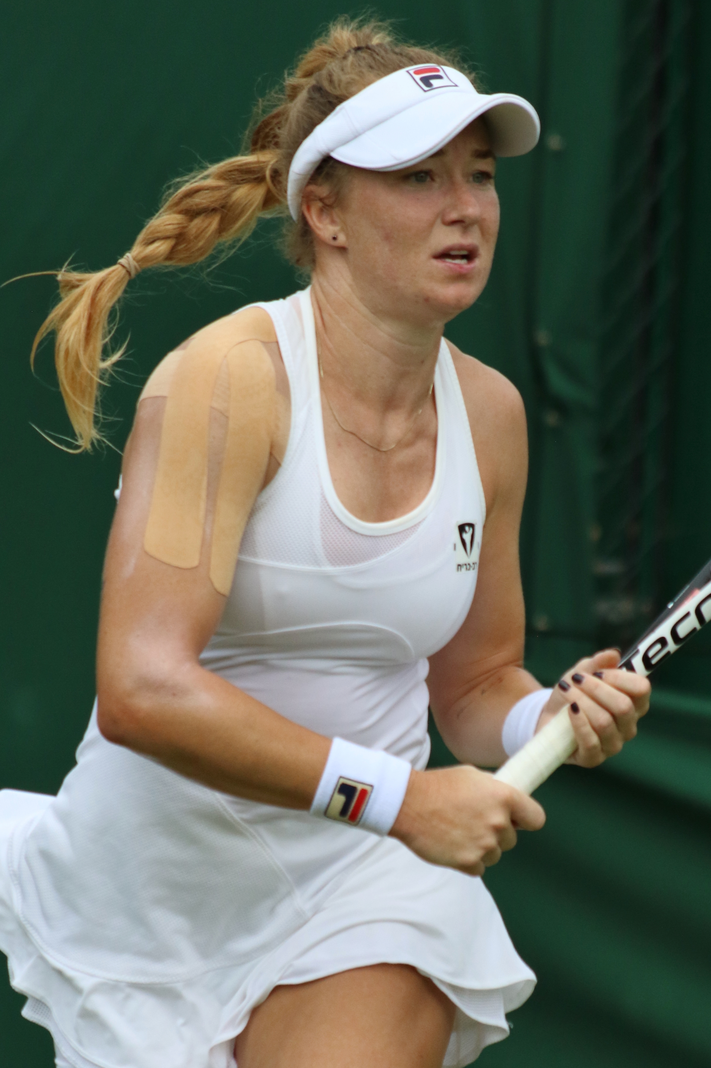 2019 Wimbledon Qualifying Tournament.